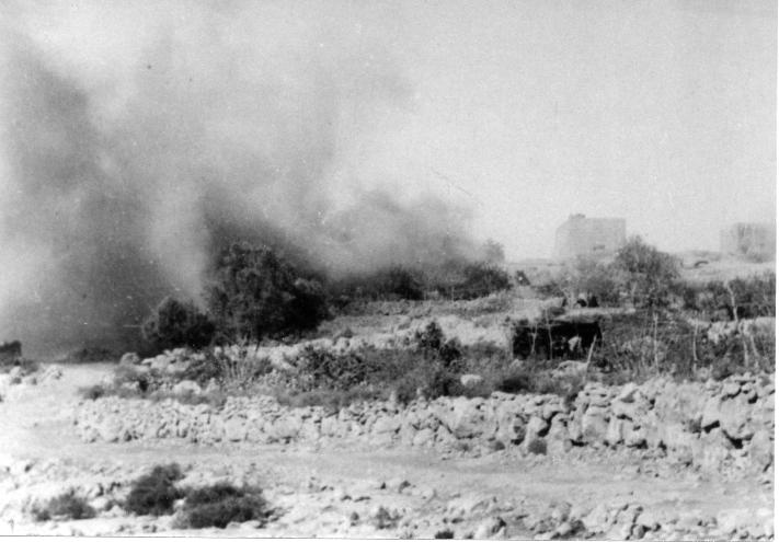 House demolition in Beit Aitb, 1948.